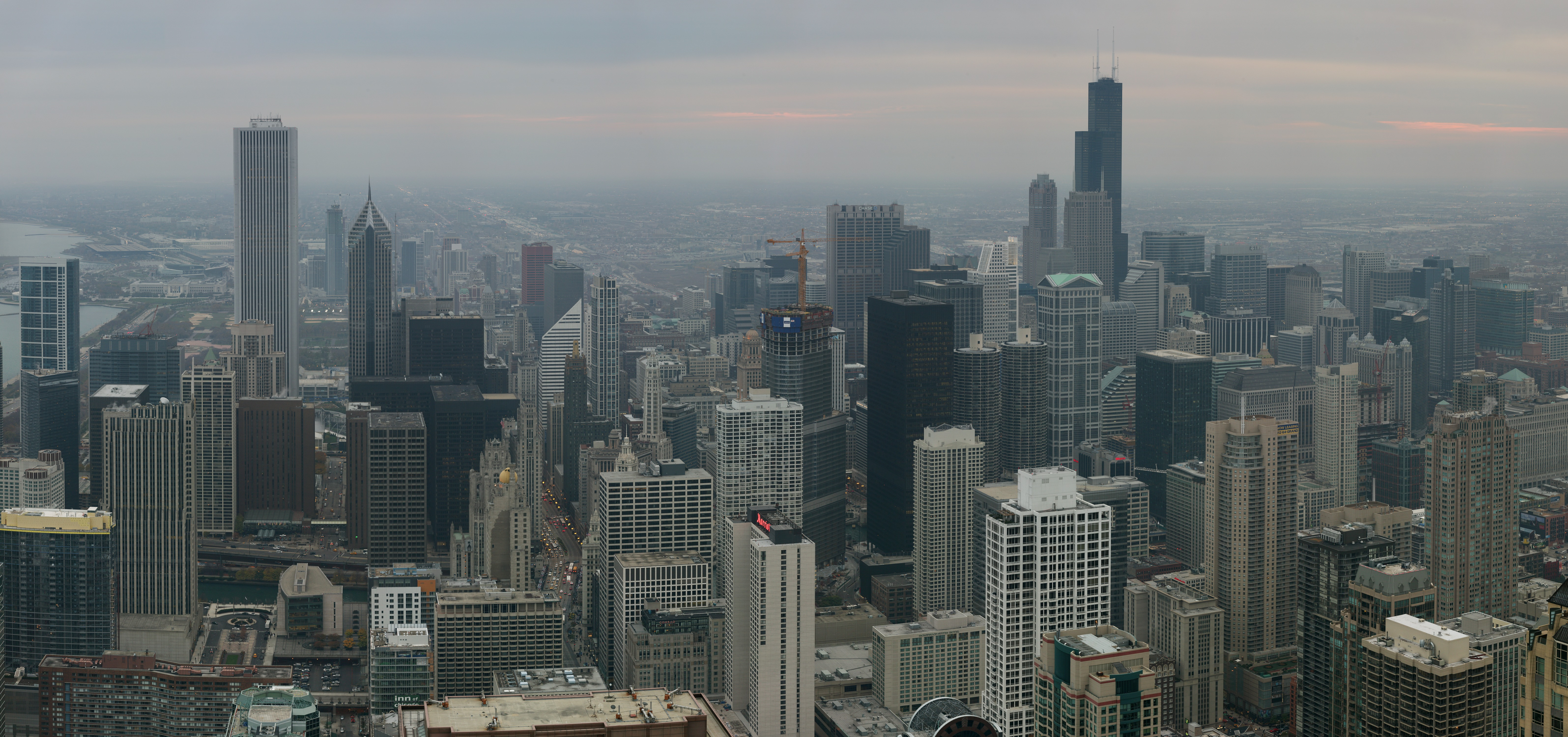 View from the Hancock Center observation deck at dusk.